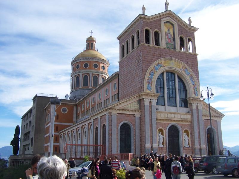 Photo taken by me of the sanctuary of tindari